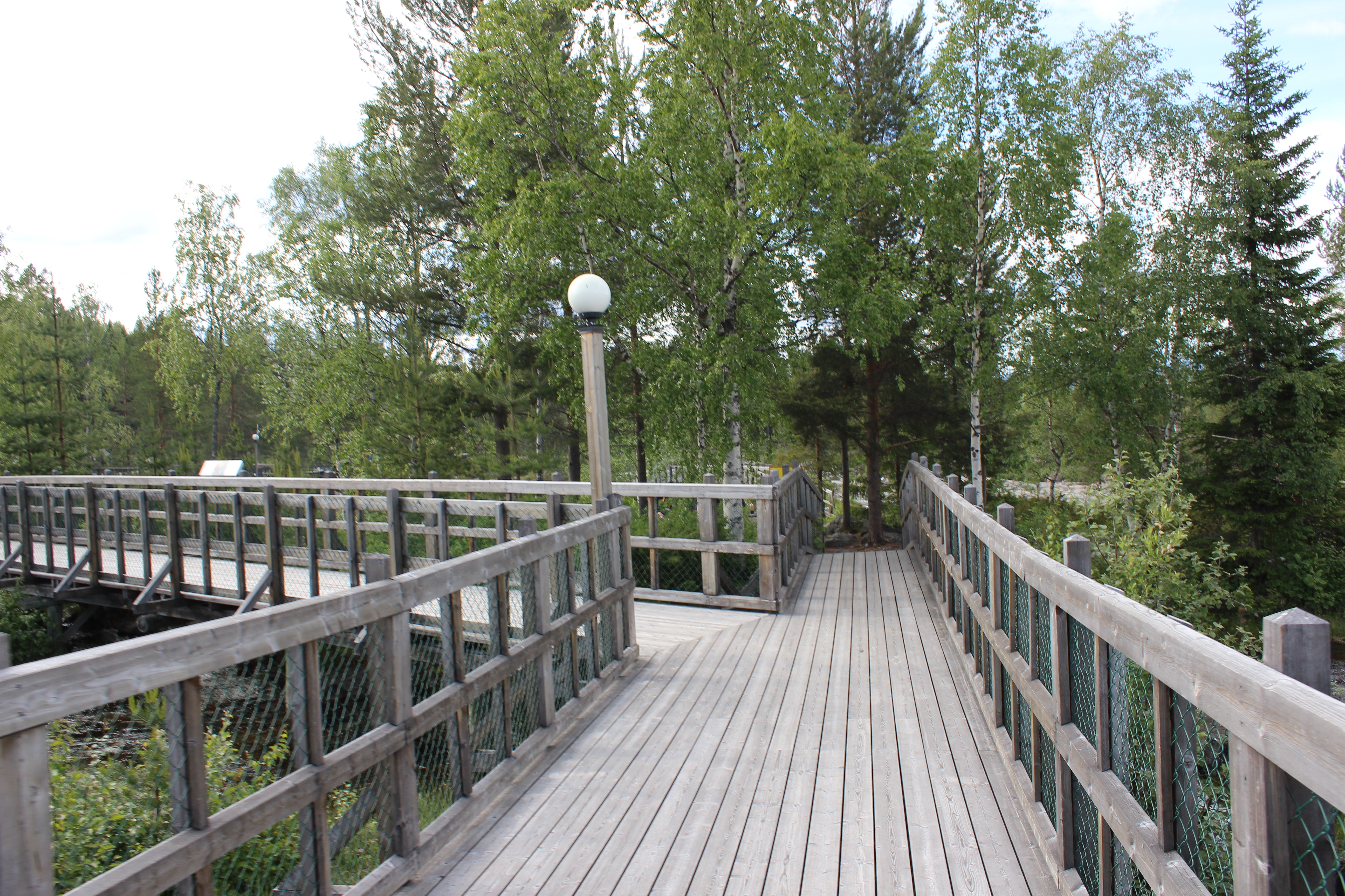 Walkways in the national park of Storforsen to help disabled people to reach the rapids.